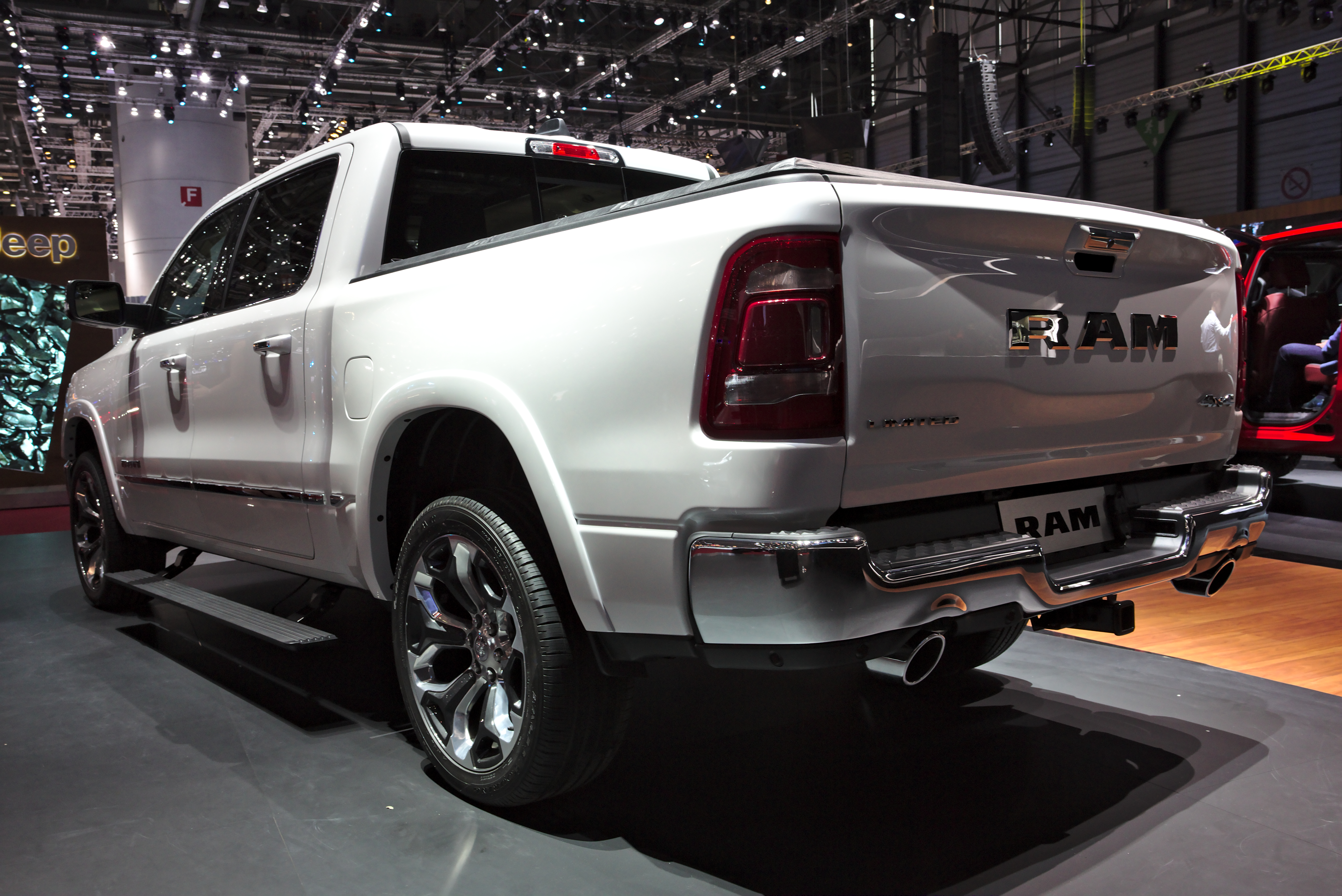 Ram 1500 at Geneva Motorshow 2018